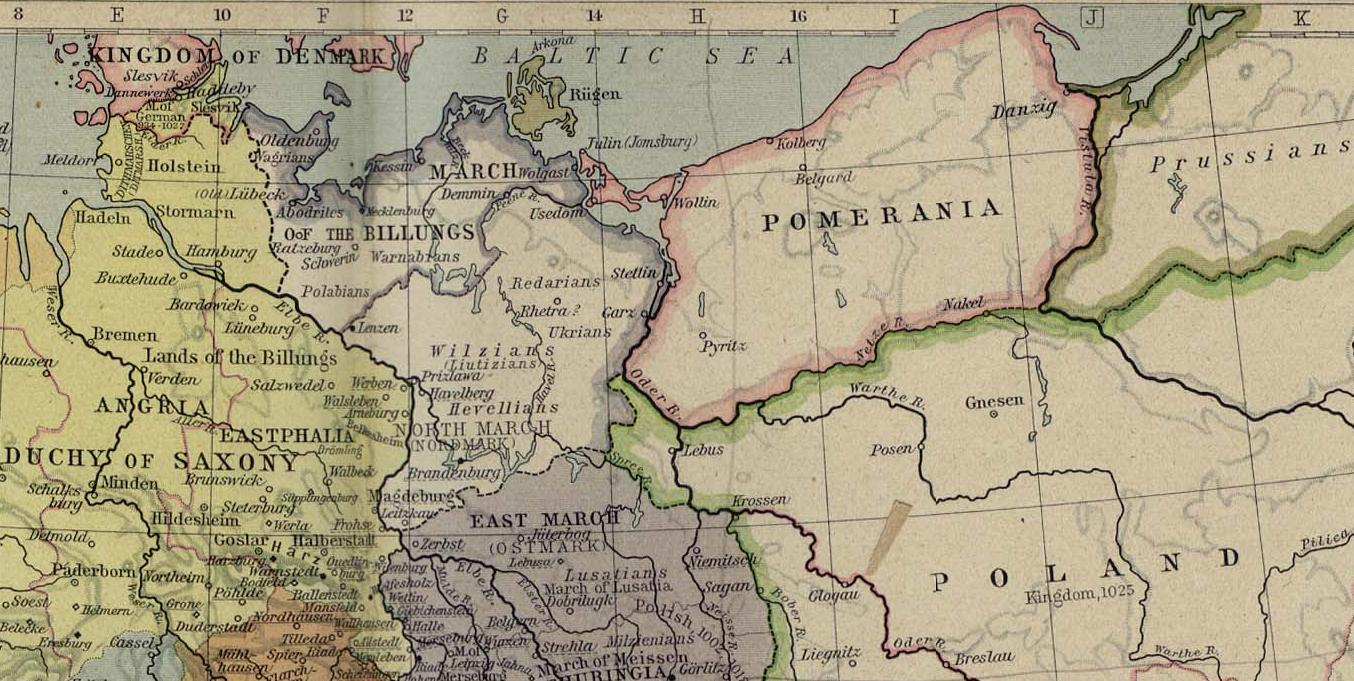 snippet of map: File:Central Europe, 919-1125.jpg in WP:Commons File:Central Europe, 919-1125.jpg